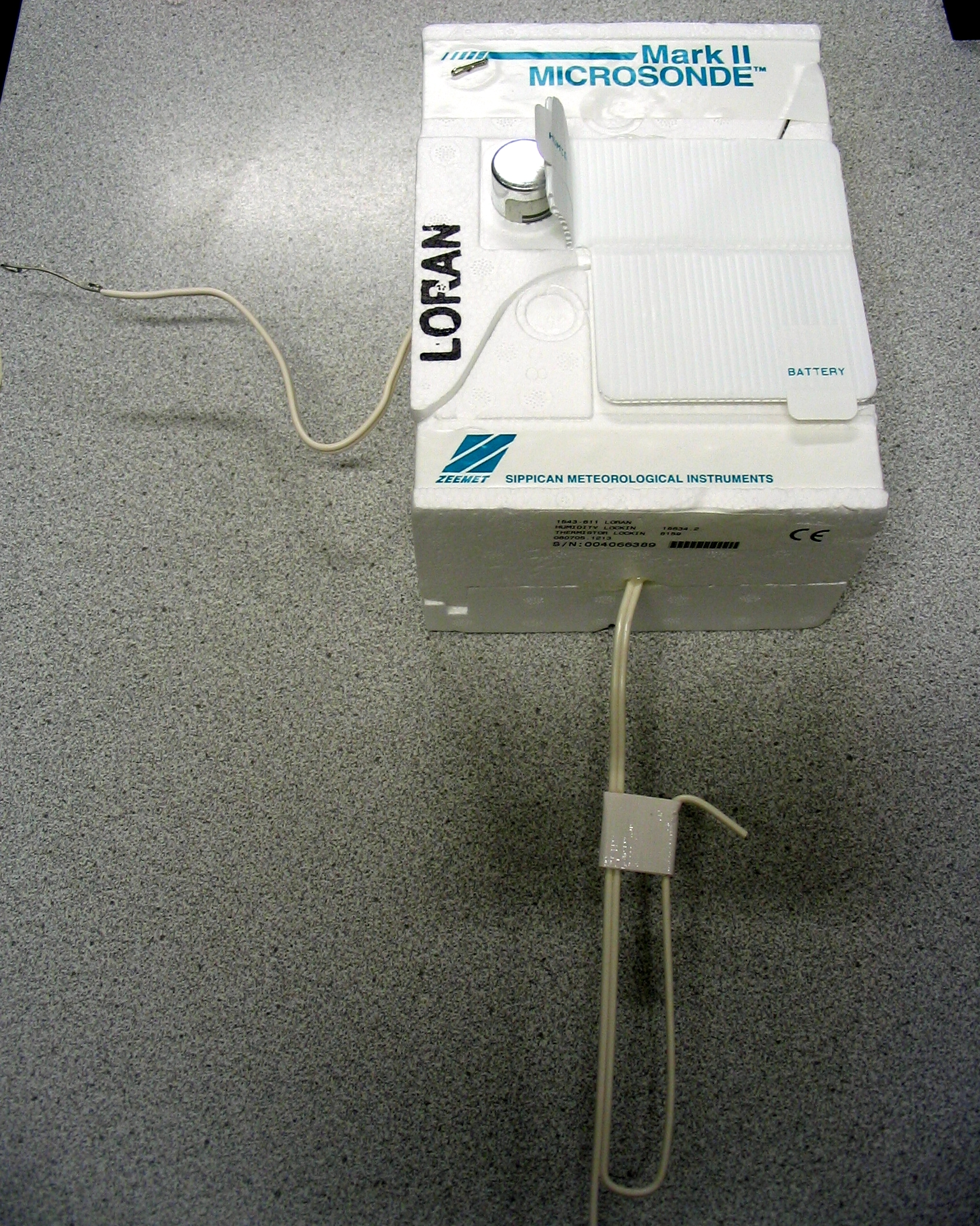 Top view of a Loran radiosonde. Thermistor is visible on far left, with antenna at bottom. Hygristor and barometer are inside the unit.